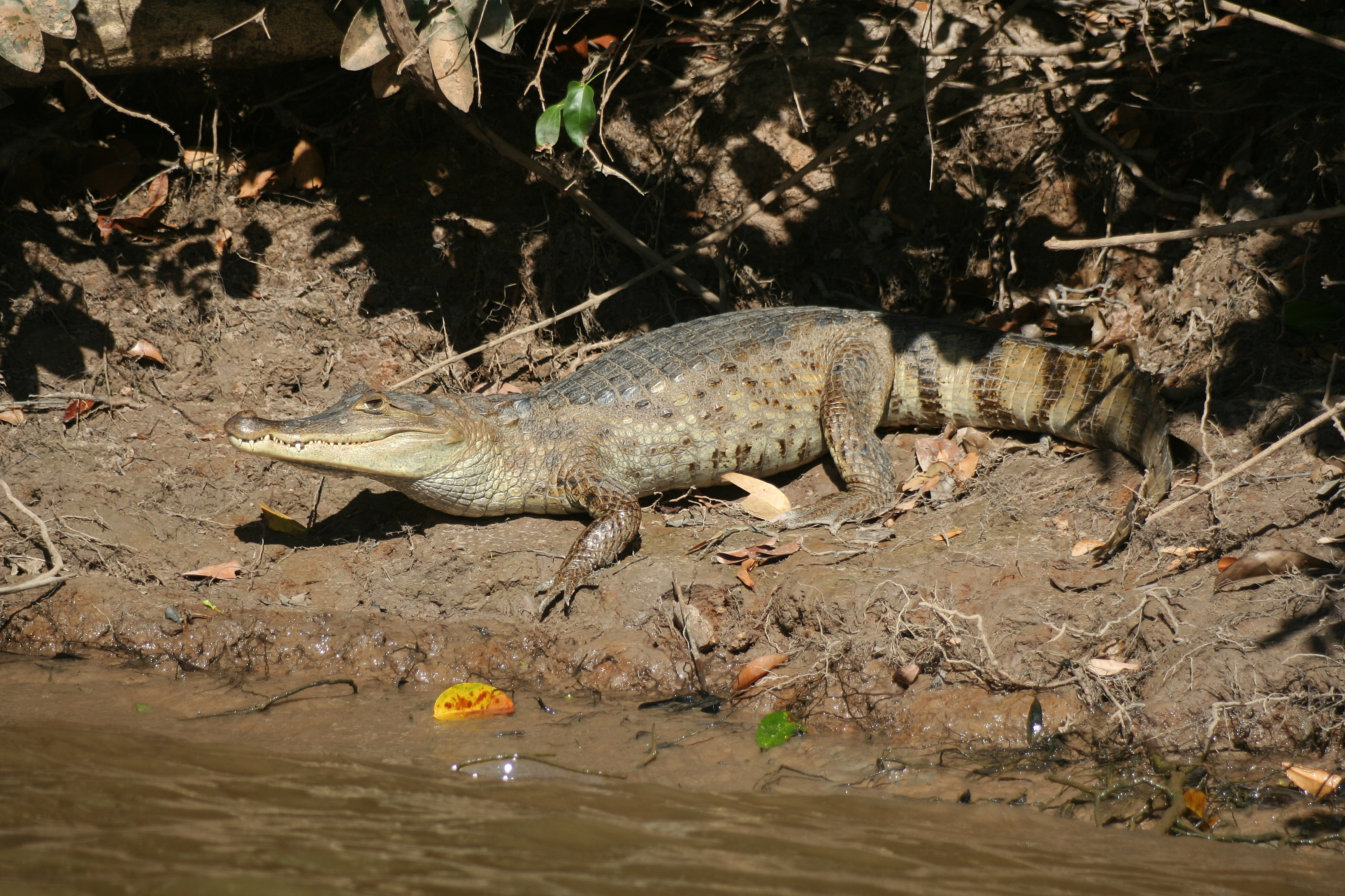 A Spectacled Caiman (Caiman crocodilus). Image taken in the Modulo Chititera, Apure state plains (Llanos), (Venezuela).